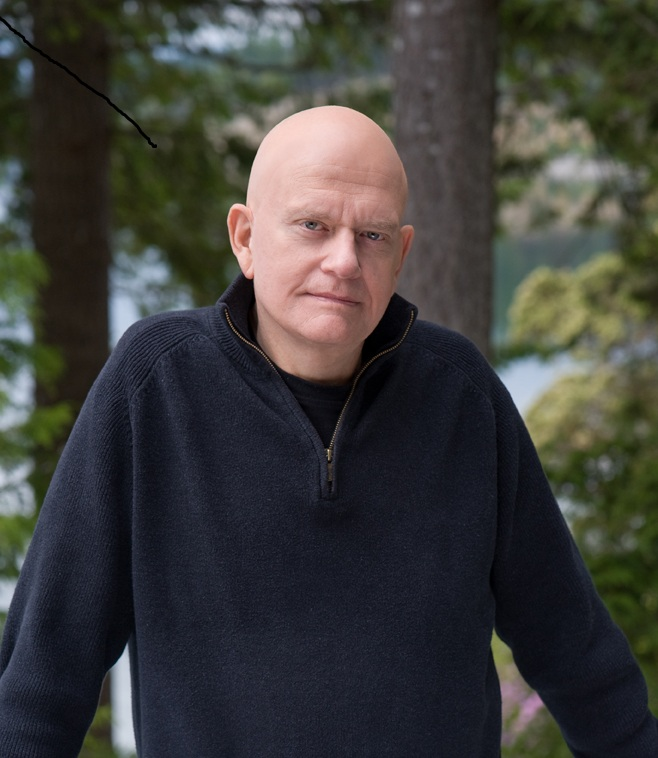 William C. Dietz Author